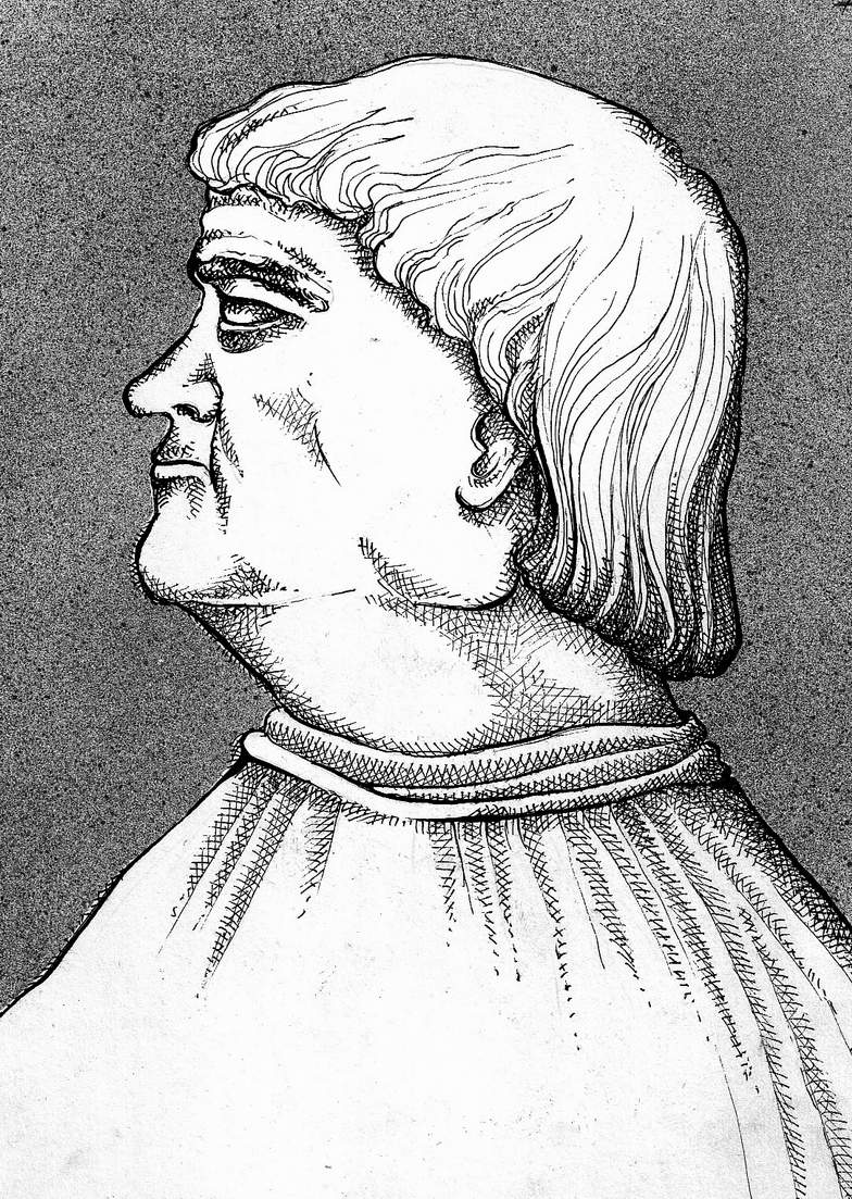 Tamás Bakócz (1442-1521) archbishop